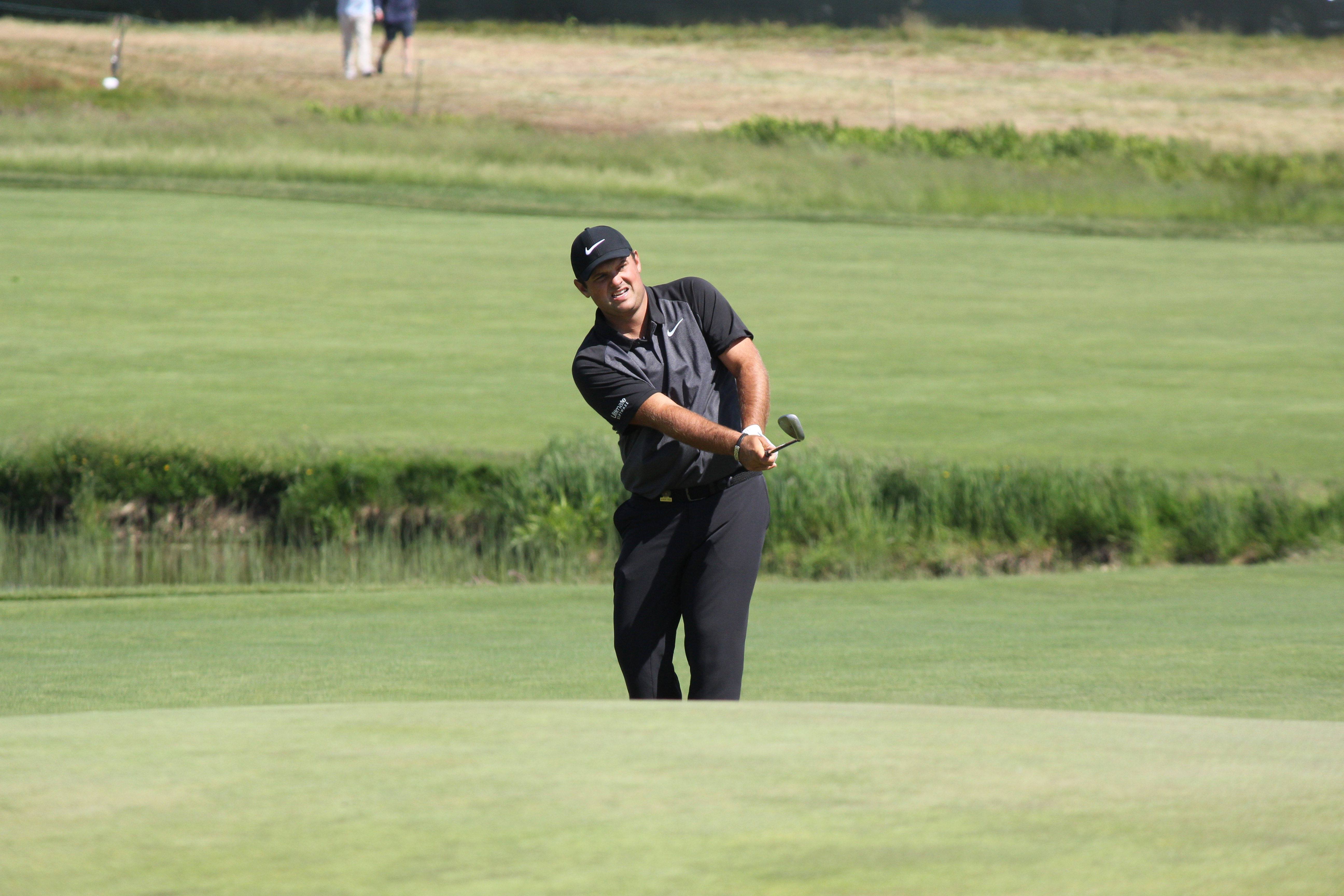 Patrick Reed at the 2018 US Open